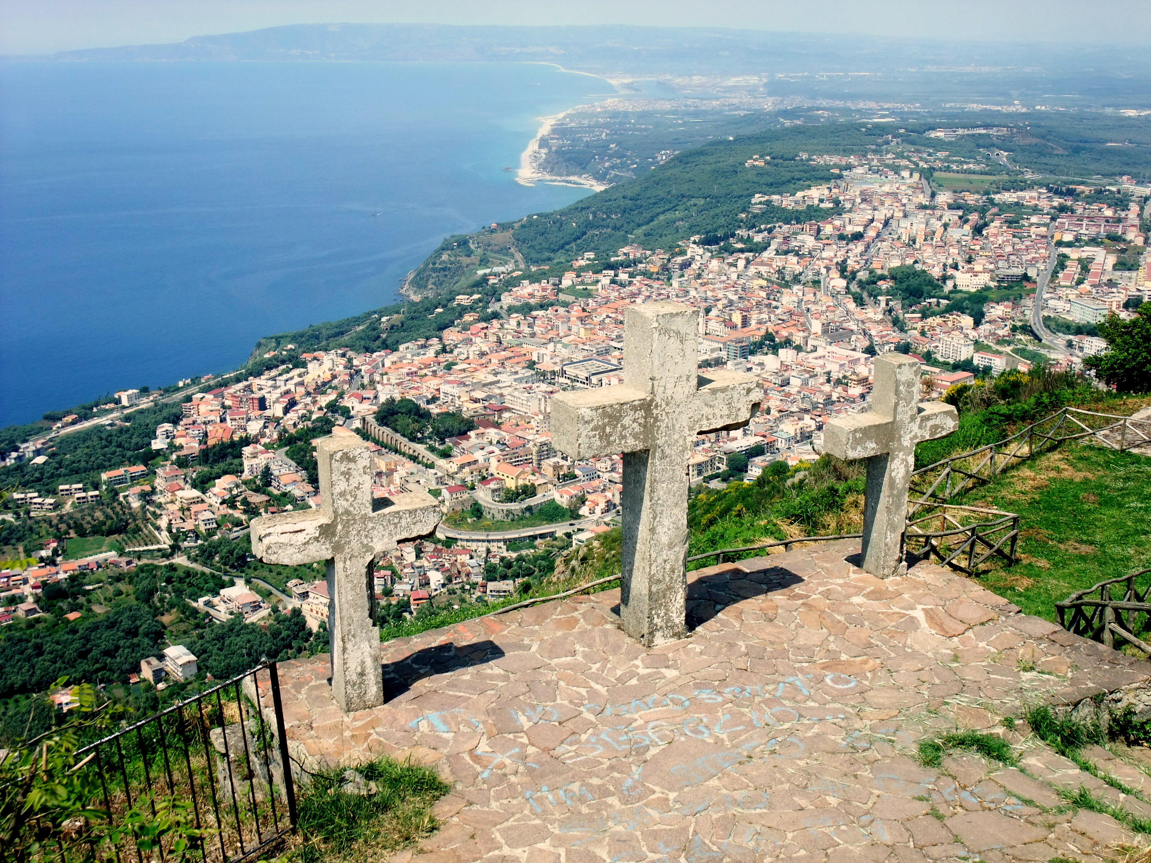 Calabria is the southernmost region of the Italian peninsula. Peak of Monte Sant'Elia (579 m) and view to Palmi.